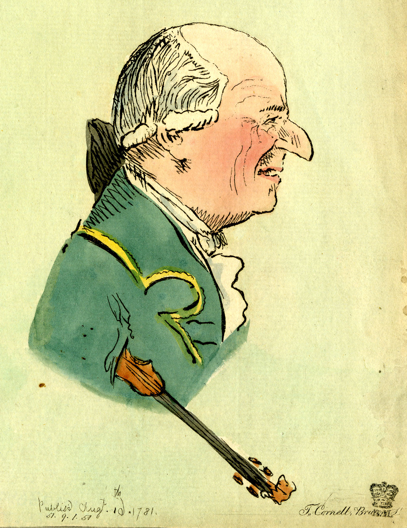 (For description see other impression). 10 August 1781 Hand-coloured etching